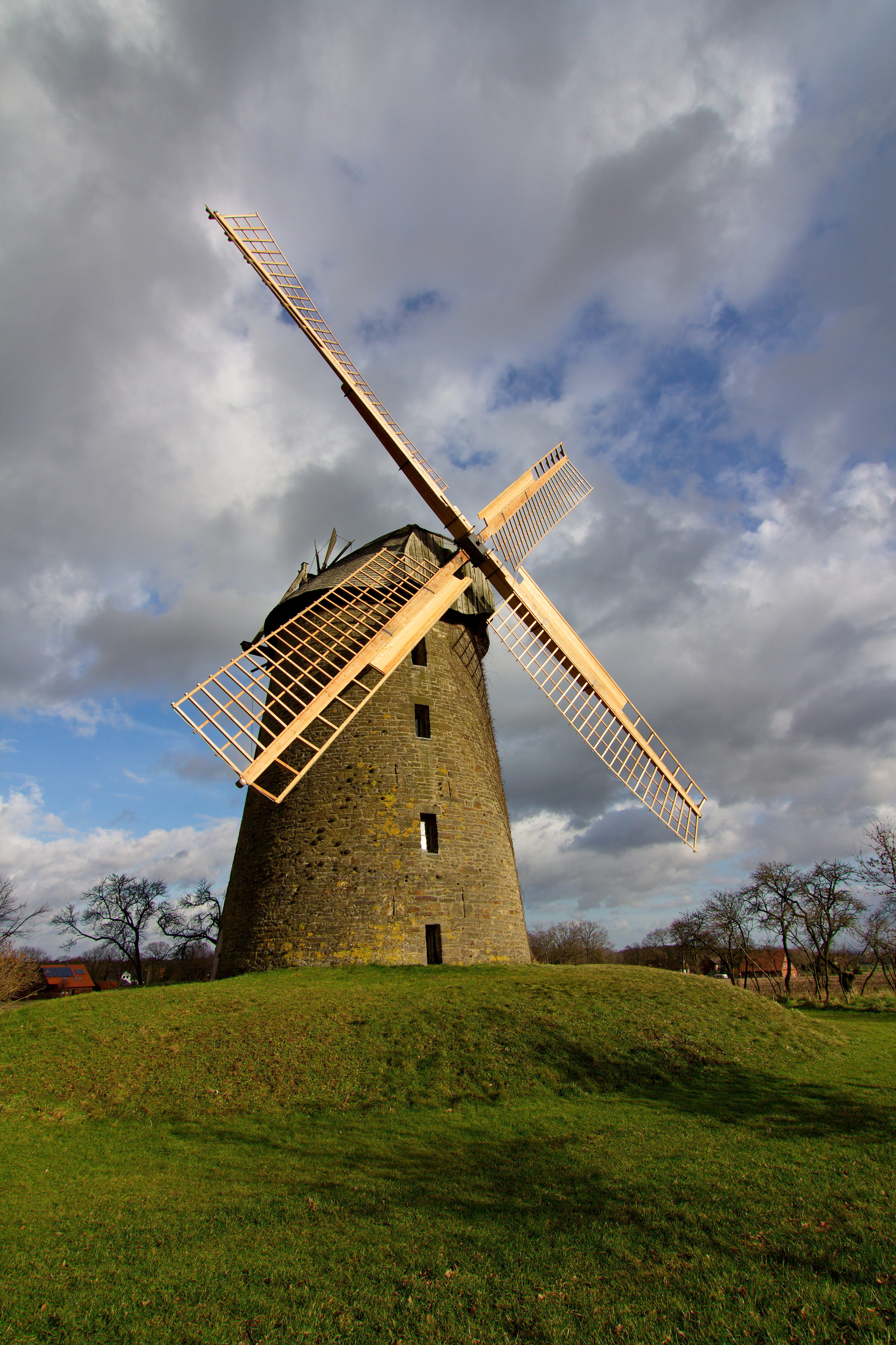 Die Königsmühle Seelenfeld von 1731 steht auf der höchsten Erhebung der alten Bauerschaft Seelenfeld